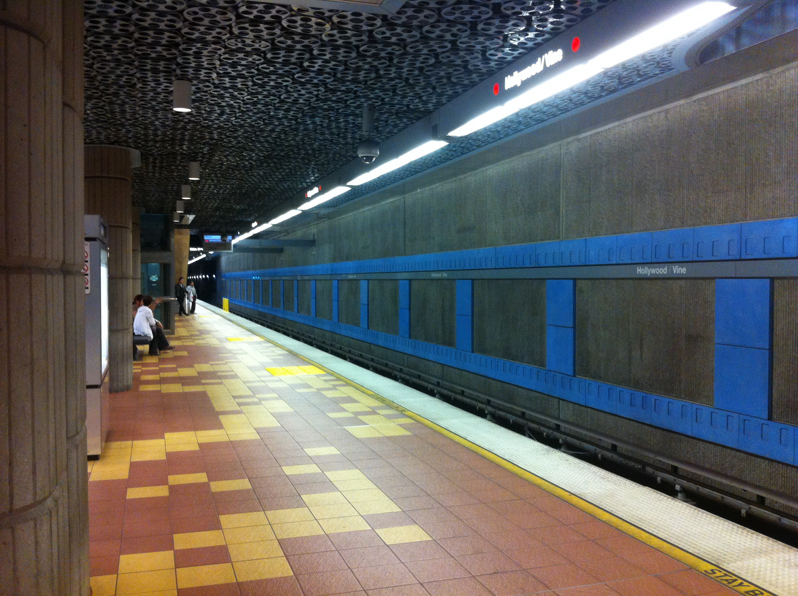 The platform view of Hollywood/Vine Station.